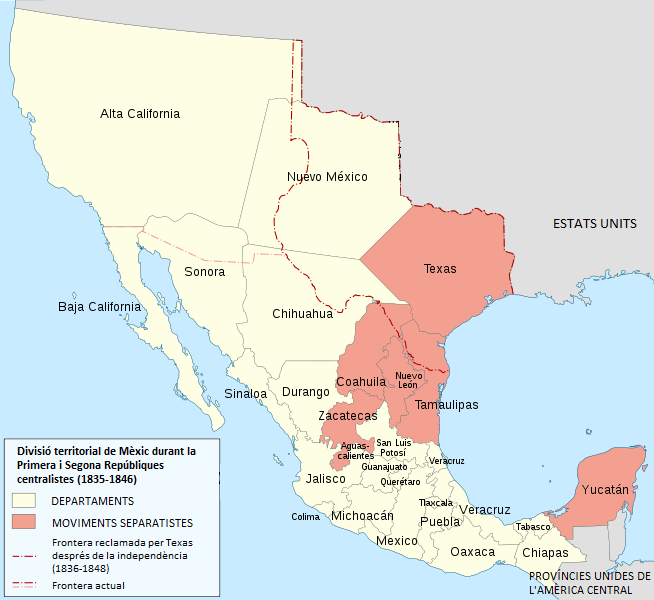 Translated from File:Mexico 1835-1846 administrative map-en-2.svg